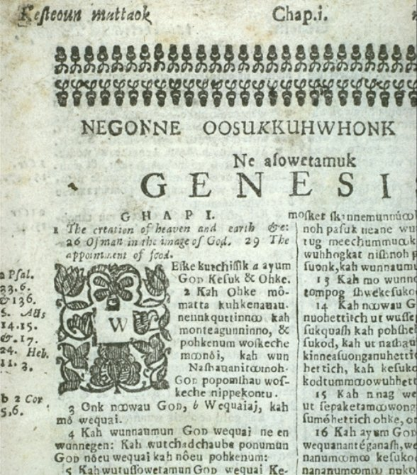 Algonquian Bible (1663) Genesis 1 close-up